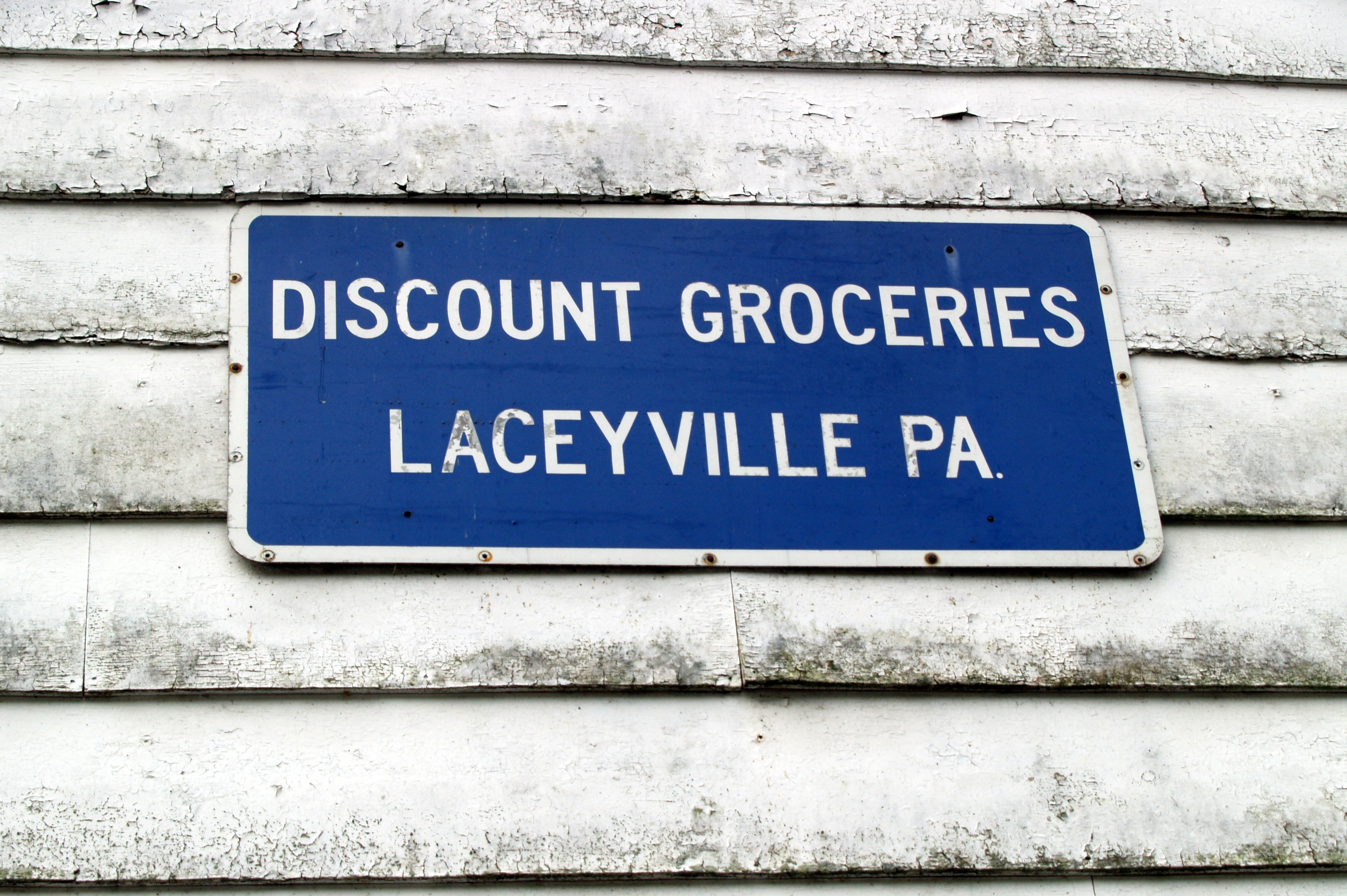 Abandoned grocery store in Laceyville, Pa in 2007